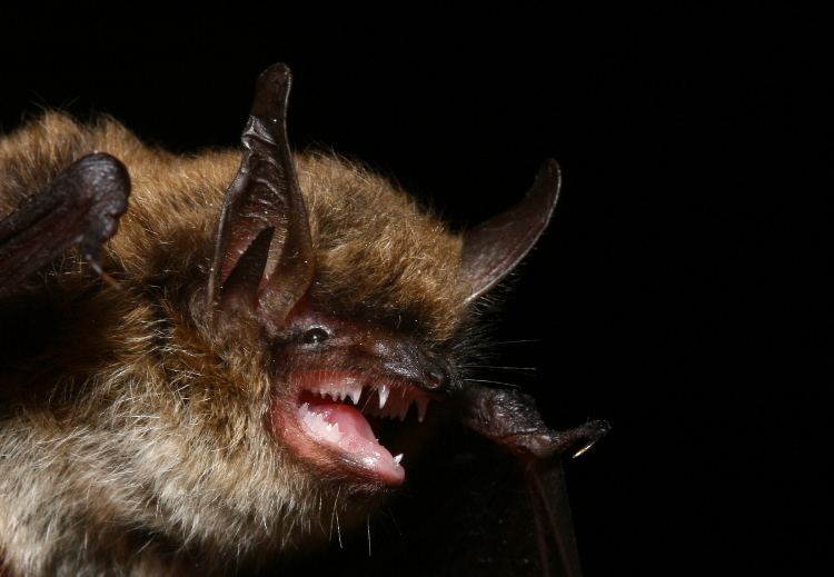 Whiskered bat (Myotis mystacinus)